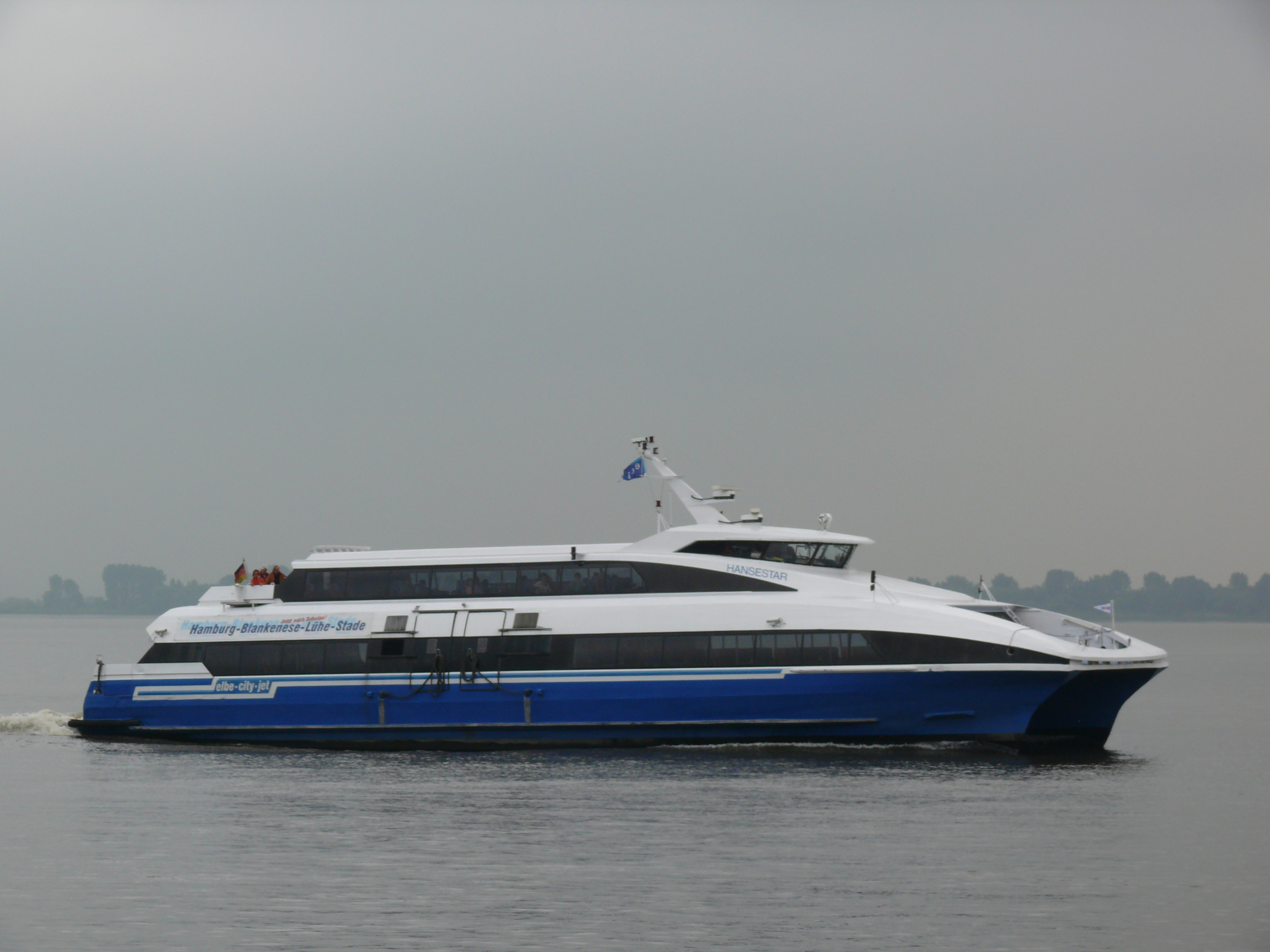 Ferry "Hanse Star", Hamburg